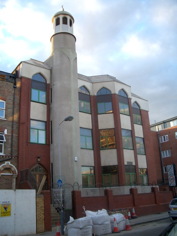 Finsbury Park Mosque, adjacent to Finsbury Park, photo by Salim Fadhley.